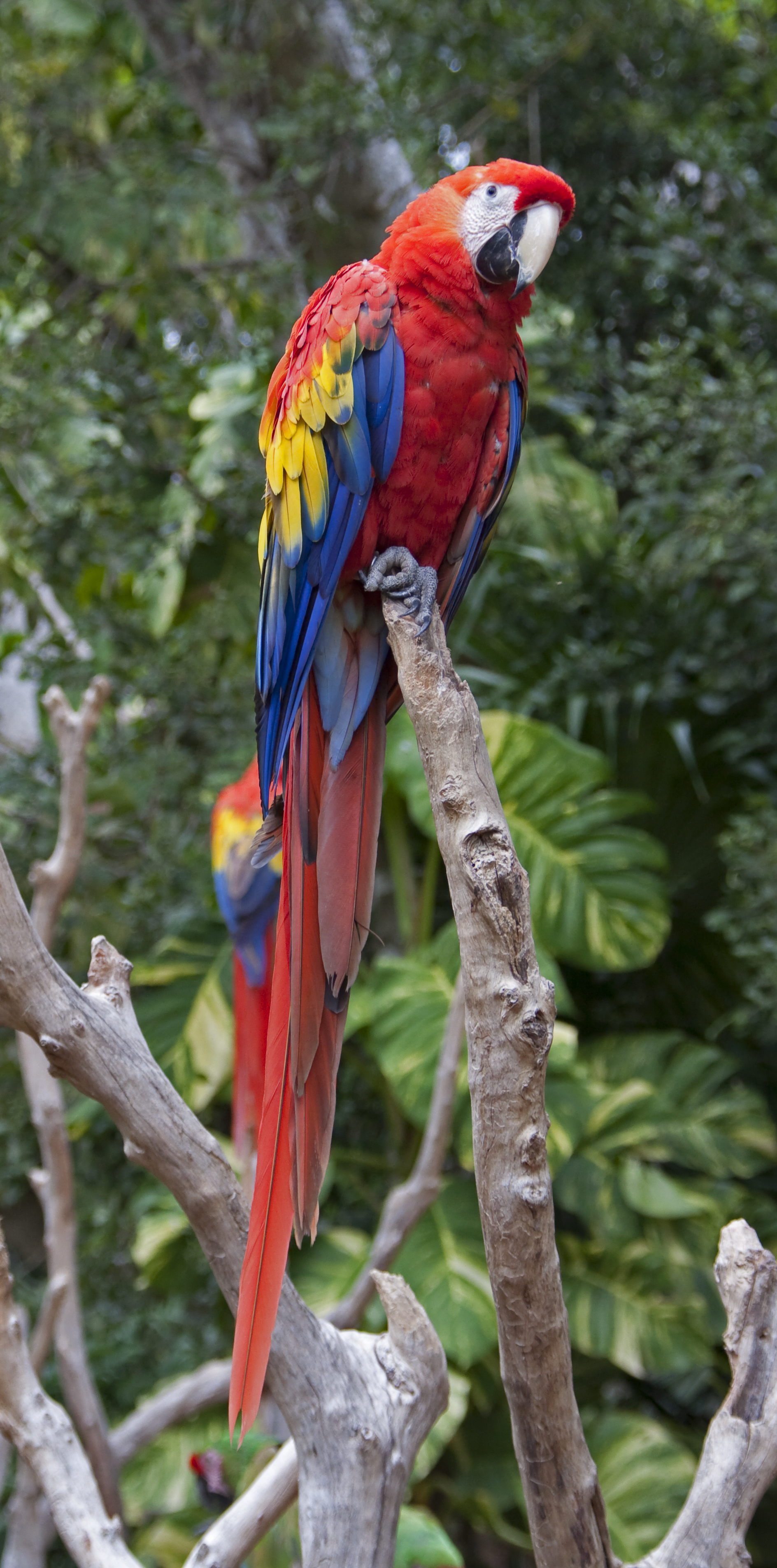 Scarlet Macaw in Yucatan, Mexico.